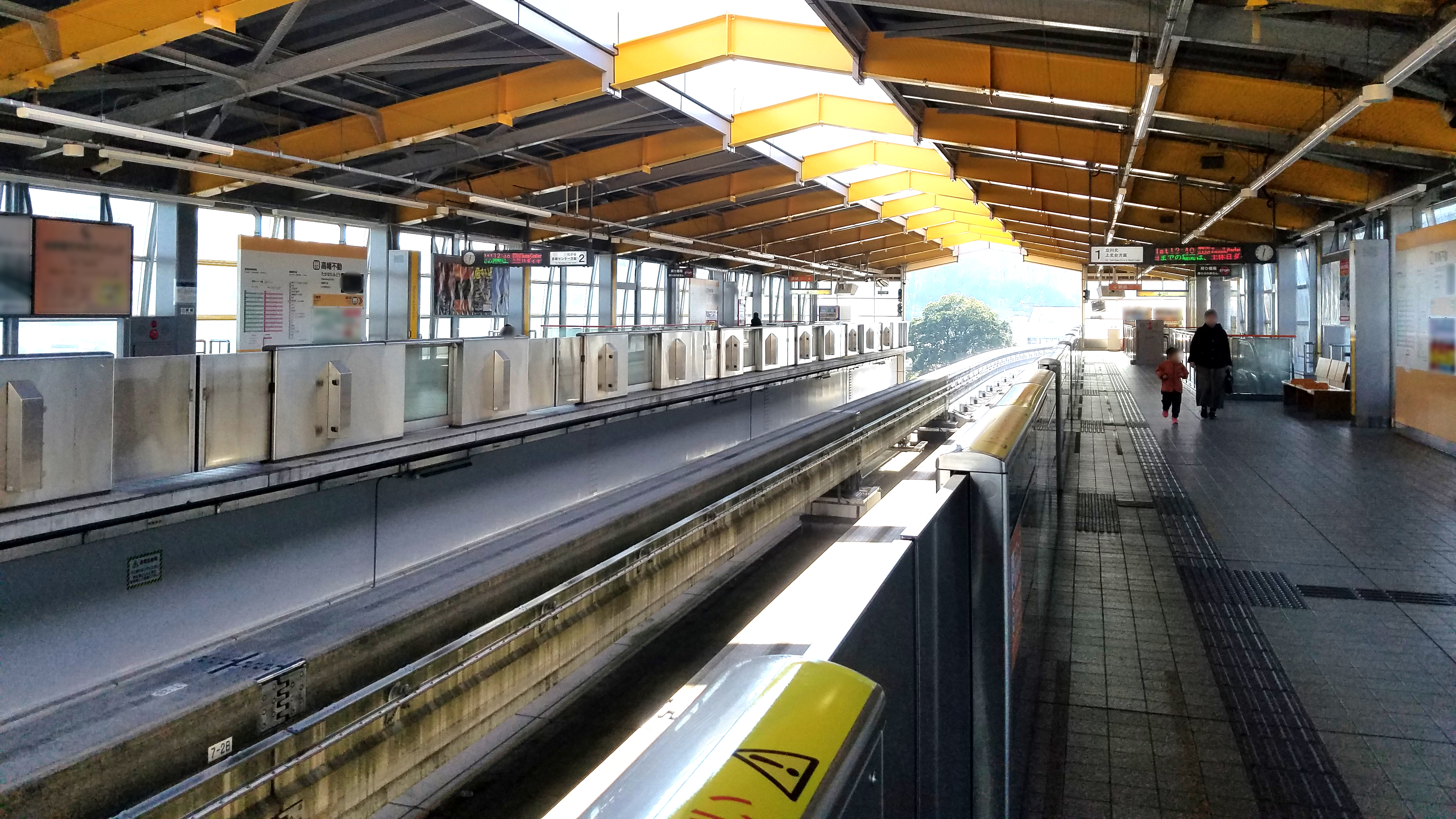 The platforms at Takahatafudō Station on the Tama Toshi Monorail in Hino city, Tokyo, Japan